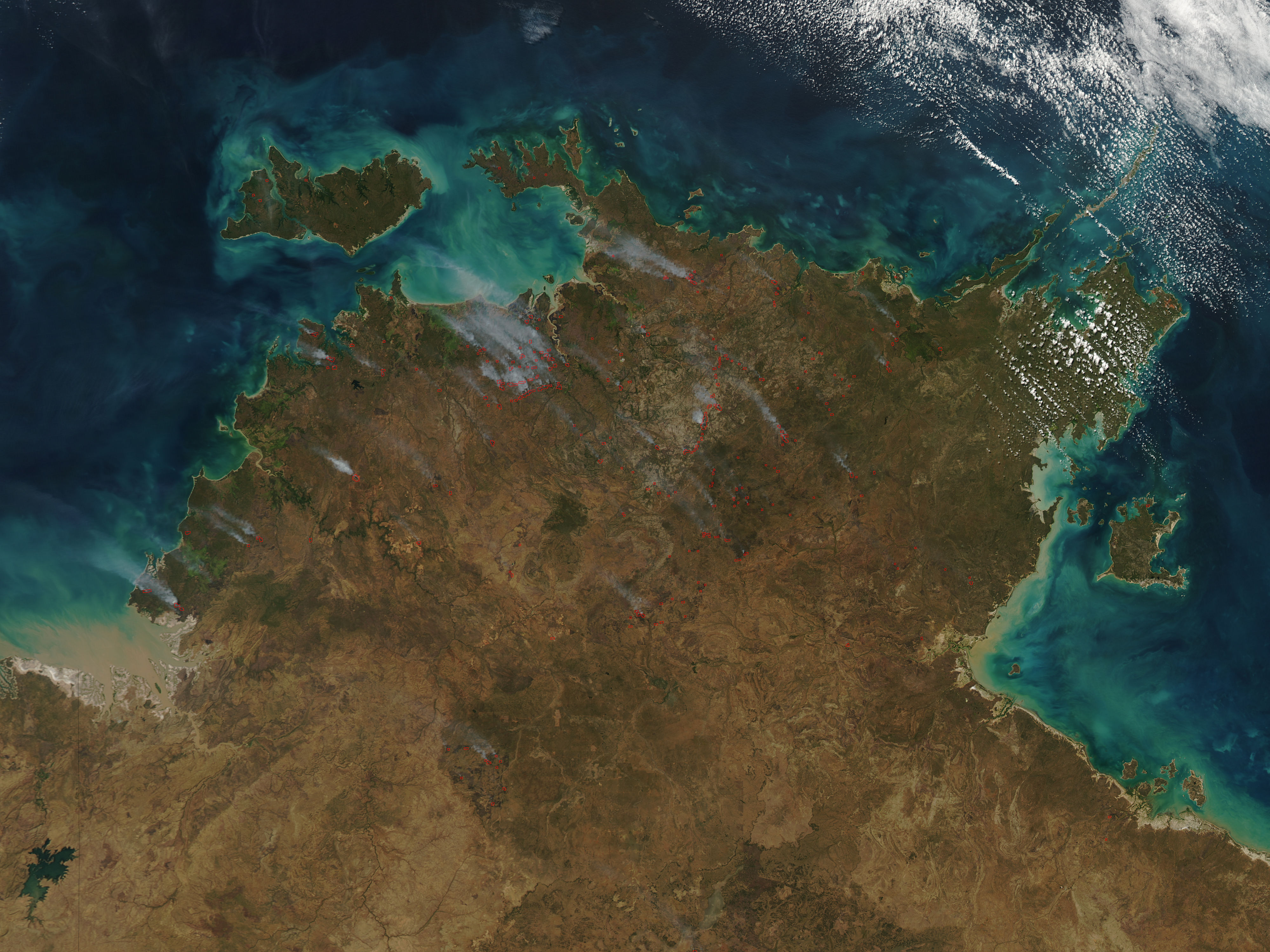 Image showing fires in Kakadu National Park